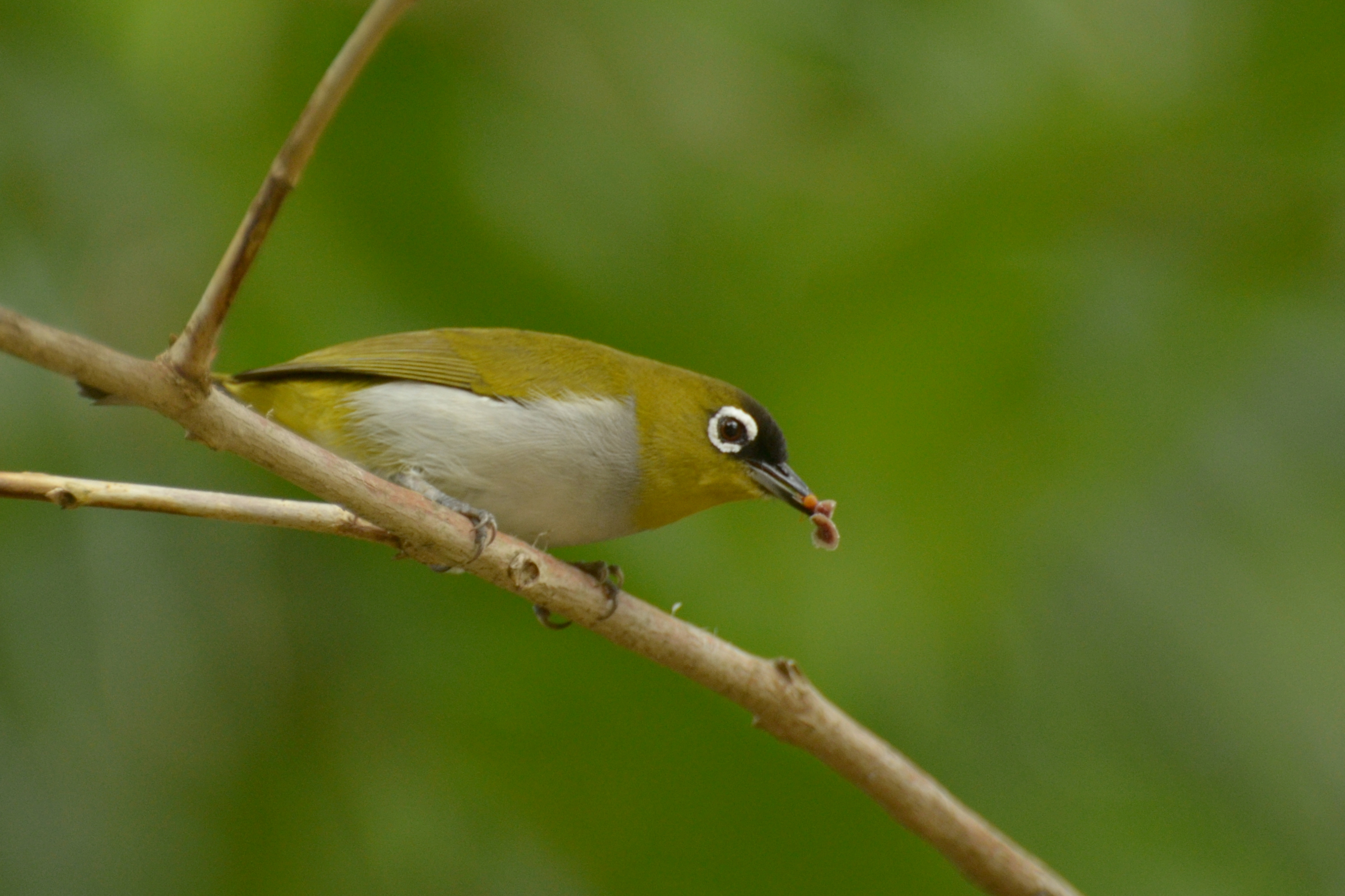 Black-crowned white-eye (Zosterops atrifrons) at Manado, North SulawesiBahasa Indonesia: Kacamata dahi-hitam (Zosterops atrifrons) di Manado, Sulawesi Utara